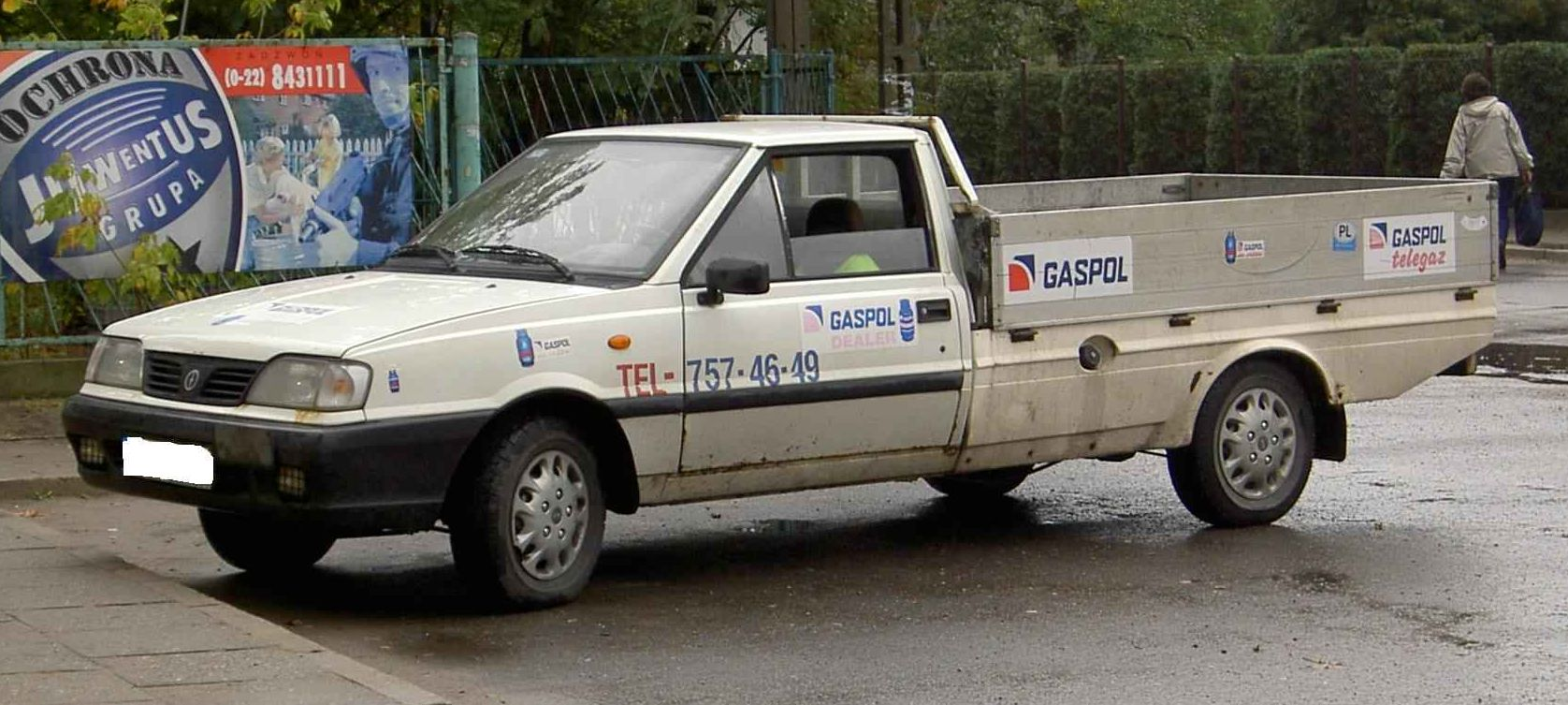 Daewoo-FSO Polonez Truck Plus LB seen in Piaseczno Picture taken by me in october 2006